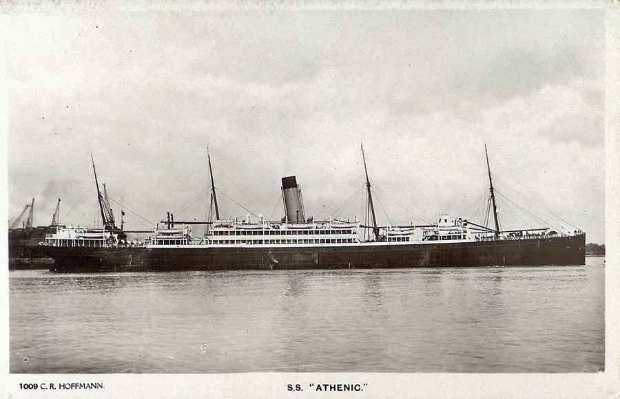 SS Athenic, White Star Line (in 1928 converted to whaling factory Pelagos)